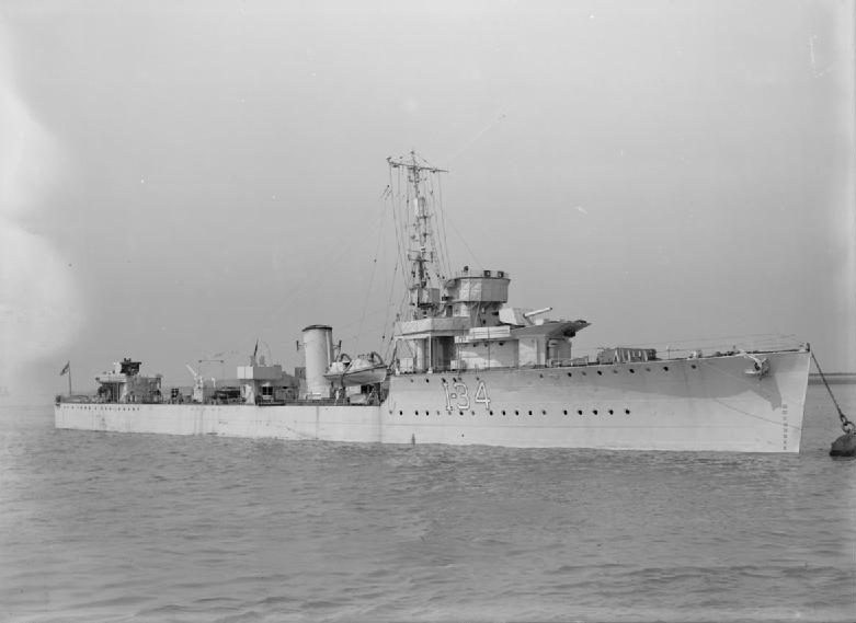 British destroyer HMS VELOX At a buoy (Admiralty V class, after LRE destroyer escort refit - removed first funnel and two guns)